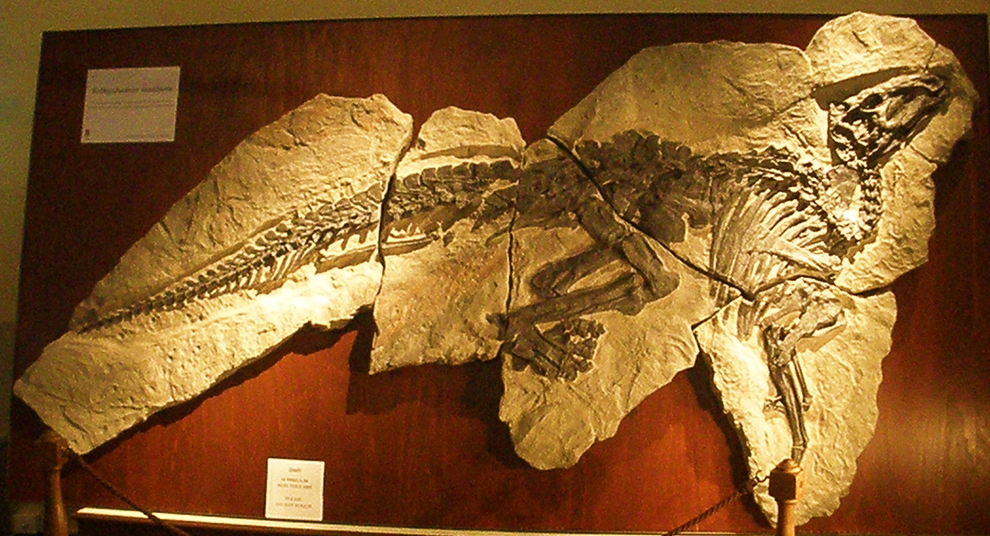 Fossil of Tethyshadros insularis, an extinct hadrosaur